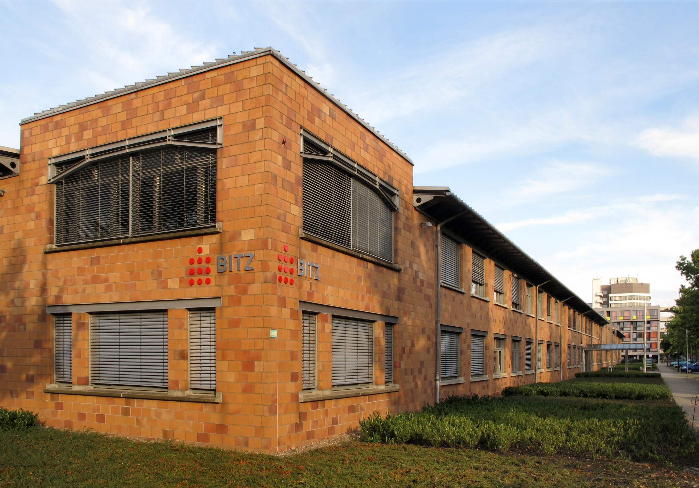 Bremen Innovation and Technology Centre, University of Bremen